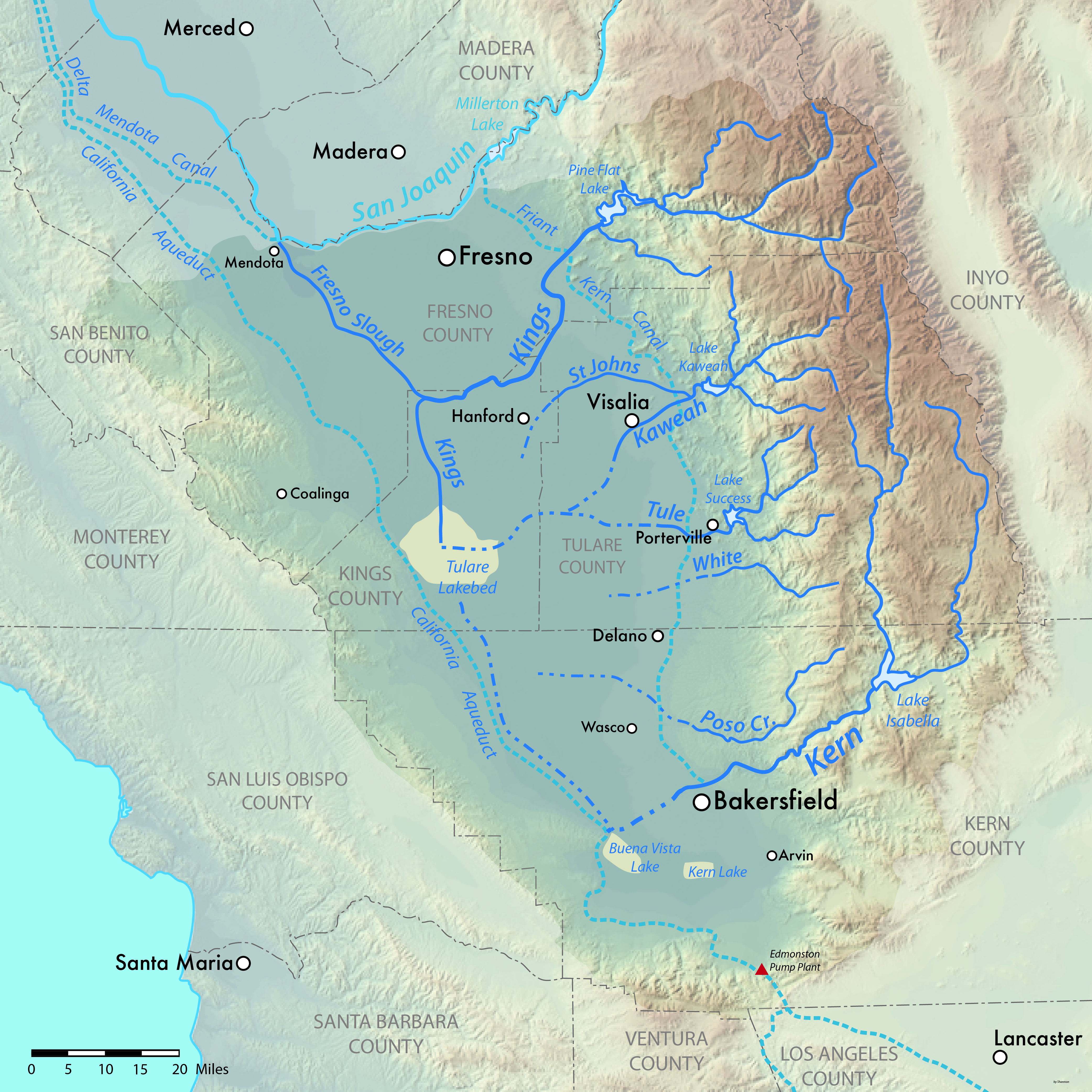 Map of the Kings, Kaweah, Tule, and Kern Rivers that flow into the semi-endorheic, dry Tulare Lake basin of the southern San Joaquin Valley in central California. See also: Tulare Lake Map 1874.